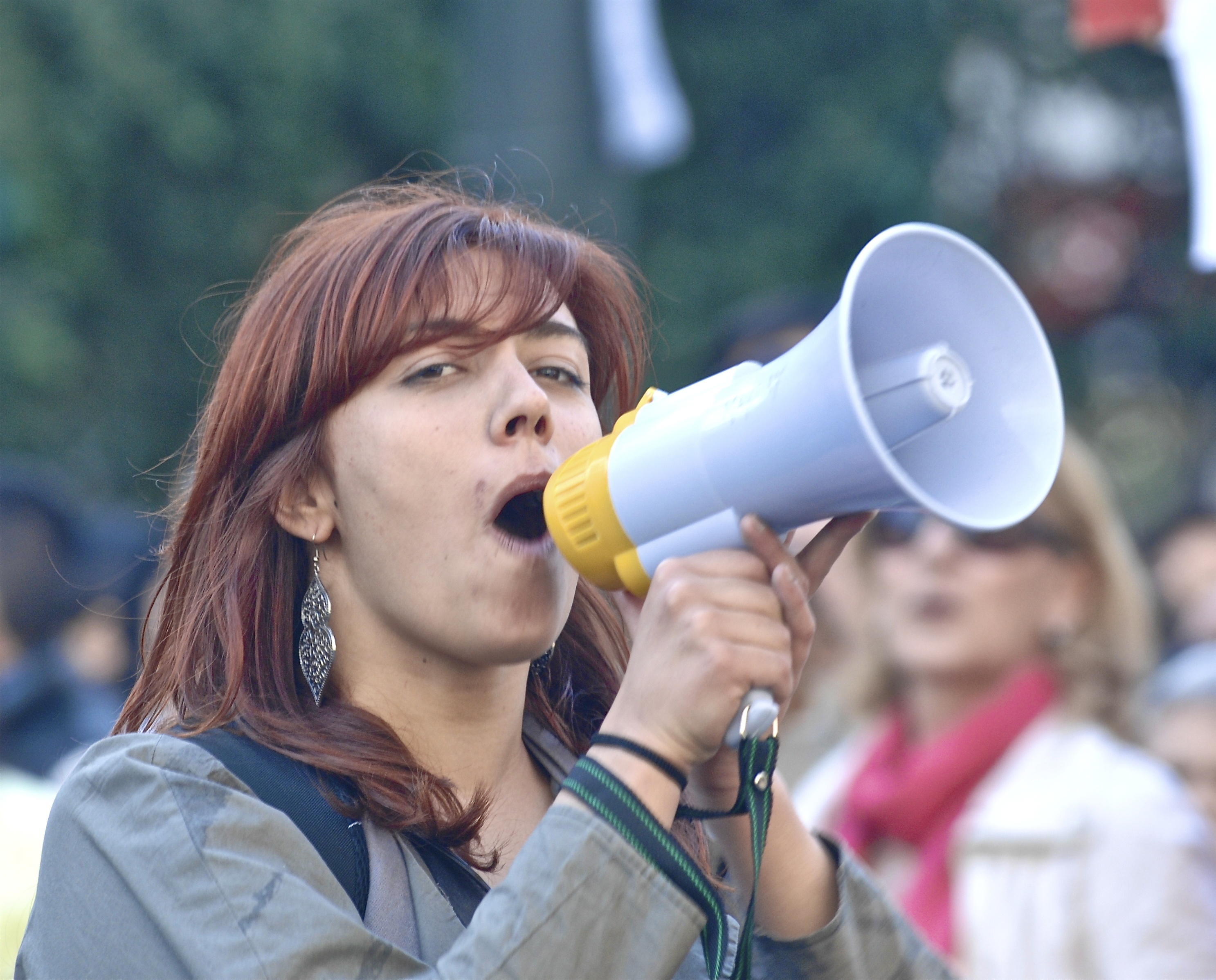 Protester during the Geração à rasca rally, in 12 March 2011, at Avenida da Liberdade, Lisboa, Portugal.